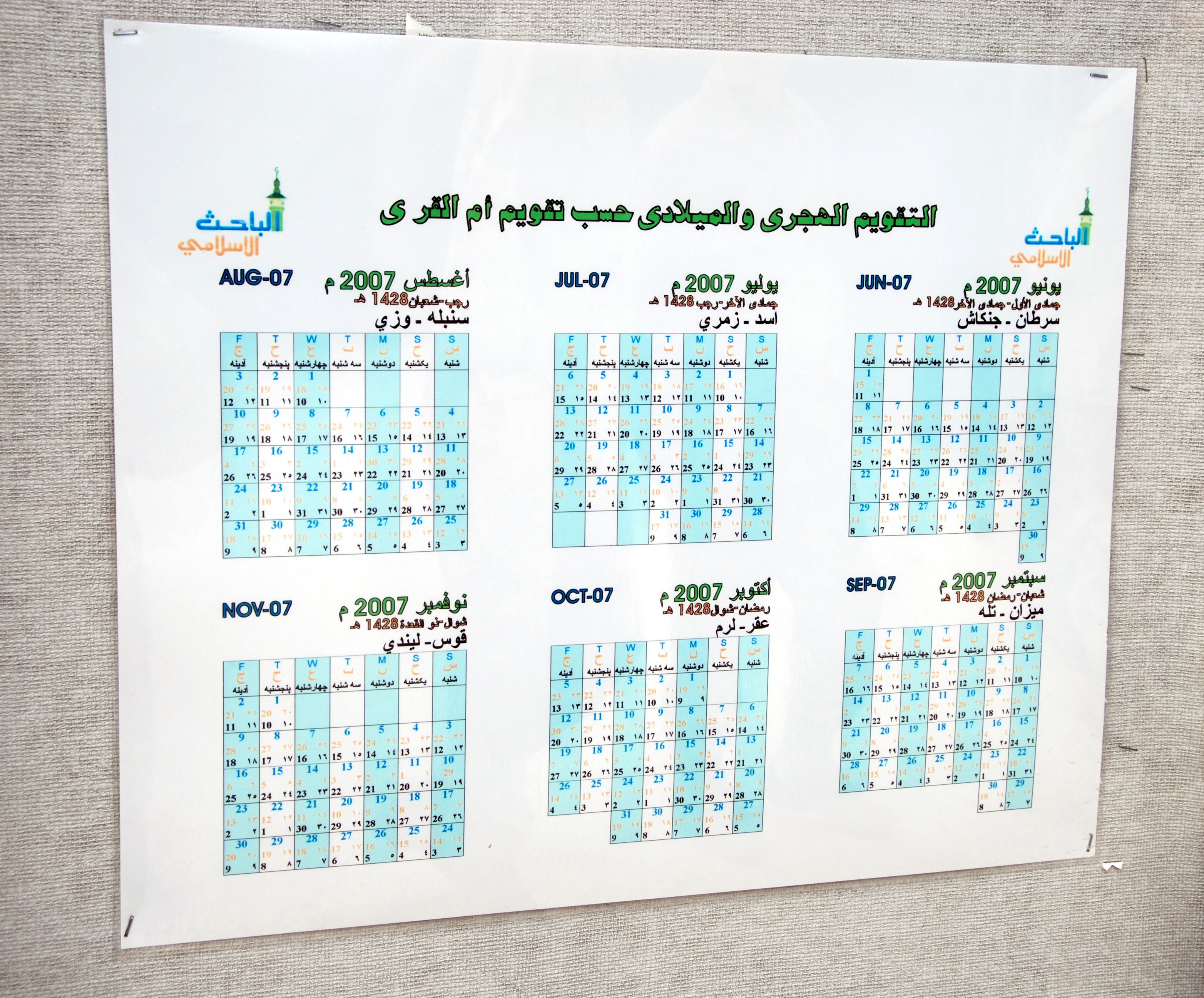 GUANTANAMO BAY, Cuba - Calendars written in Arabic remind detainees of important religious holidays and periods. Calendars are displayed throughout the recreational area regardless of camp location. Oct. 4, 2007. (JTF Guantanamo photo by Navy Petty Officer 1st Class Richard M. Wolff)